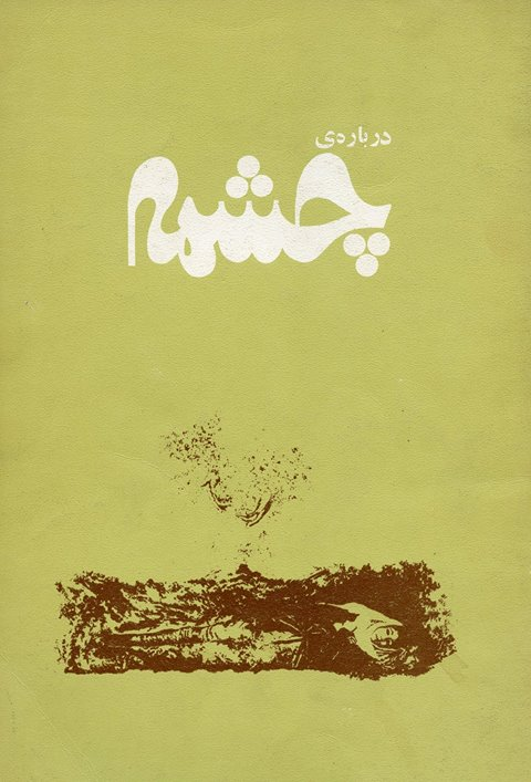 Cover book "about Cheshmeh" By Zaven Qukasian